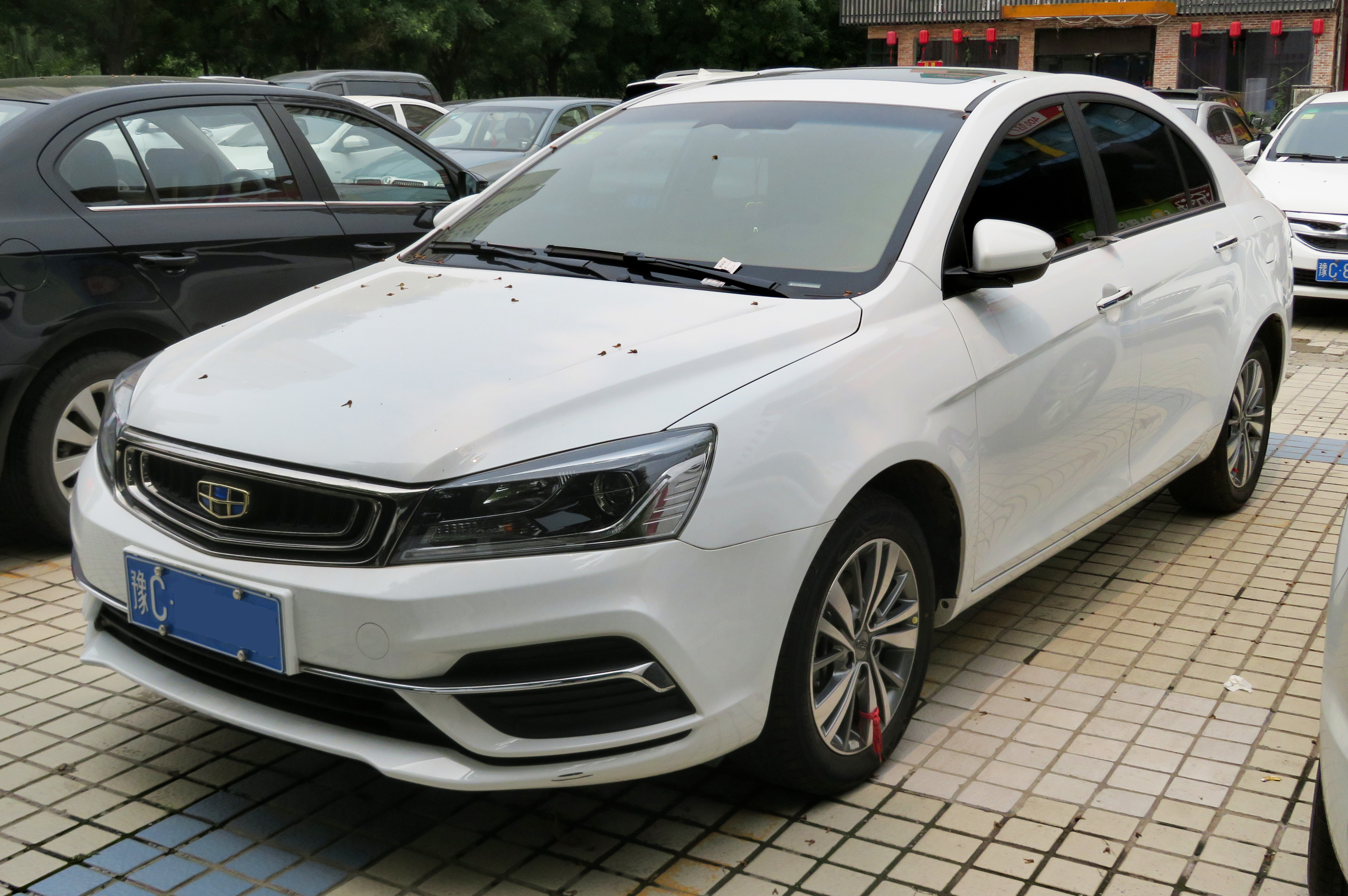 A 2018 Geely Emgrand photographed in Luolong District, Luoyang, Henan province, China